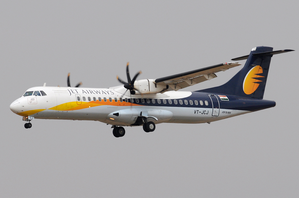 ATR 72-500.